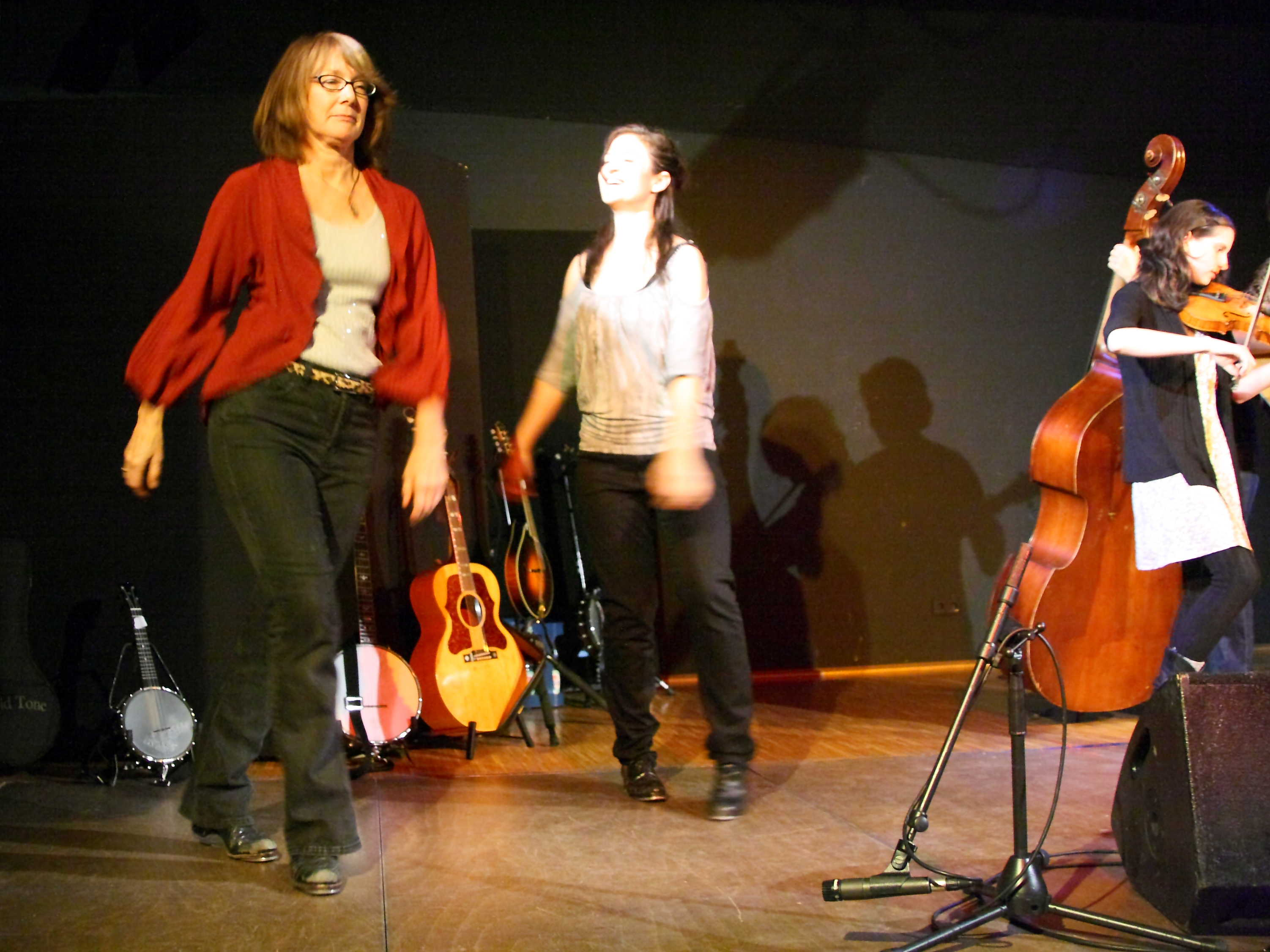 Paula Bradley and Kristin Andreassen clogging with Uncle Earl at Kult, Niederstetten